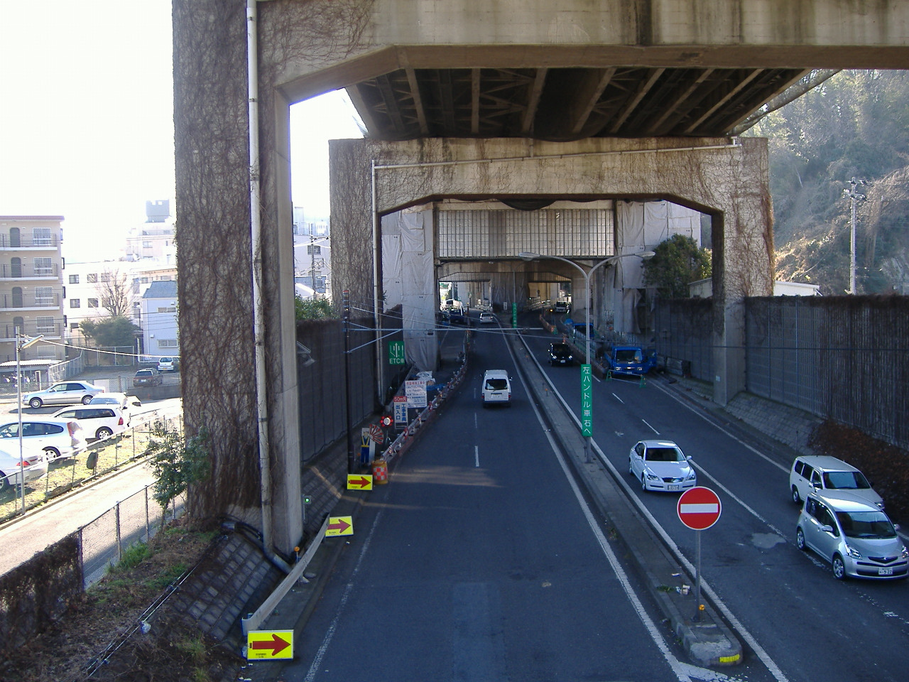 Hino Interchange in Yokohama City, Japan